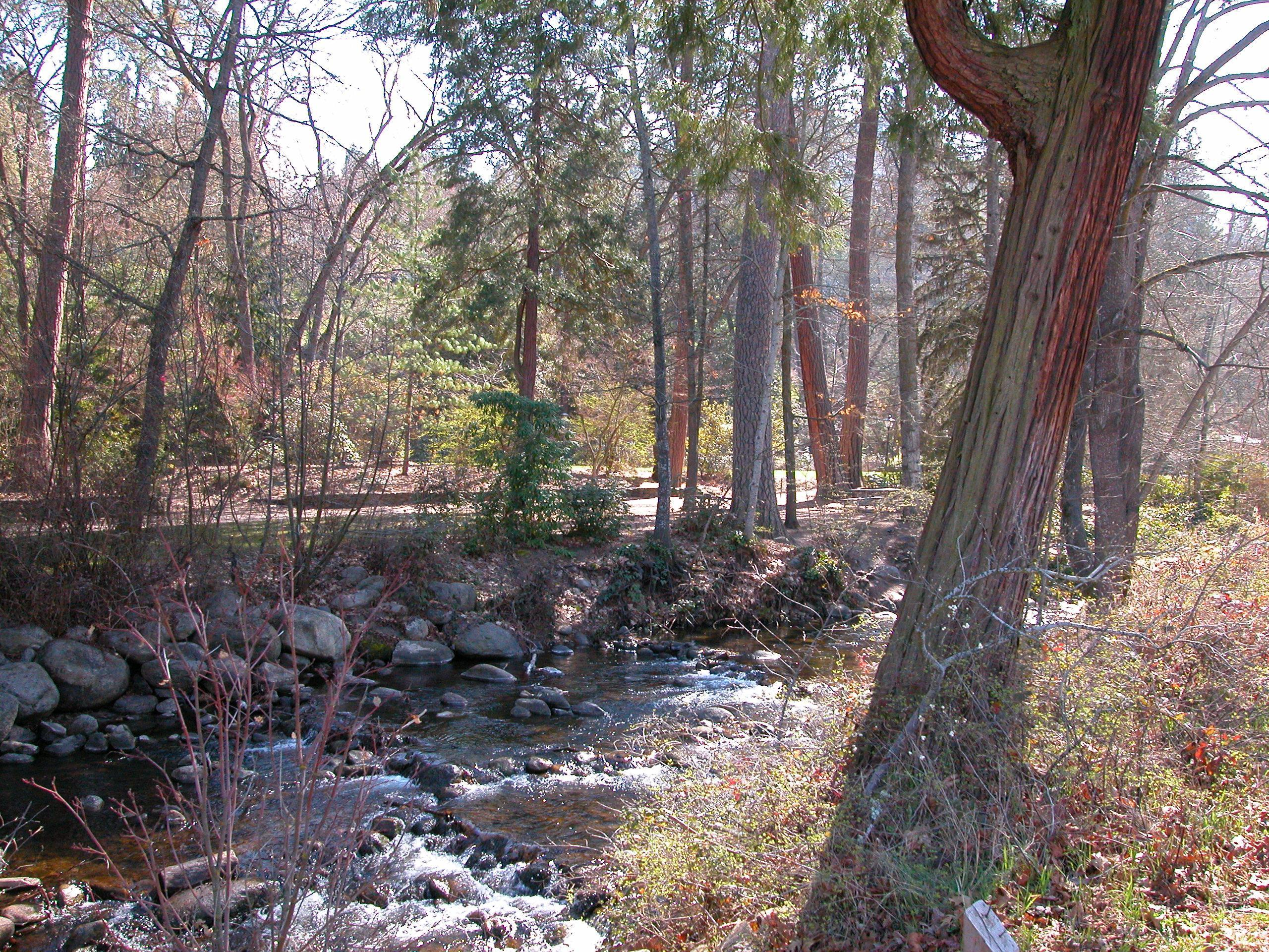 View of Ashland Creek This photograph was taken by me on March 5, 2005.